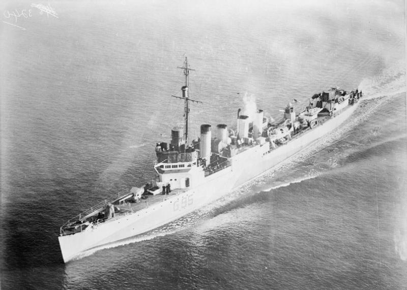 HMS Montgomery Underway off Charleston, South Carolina, USA.